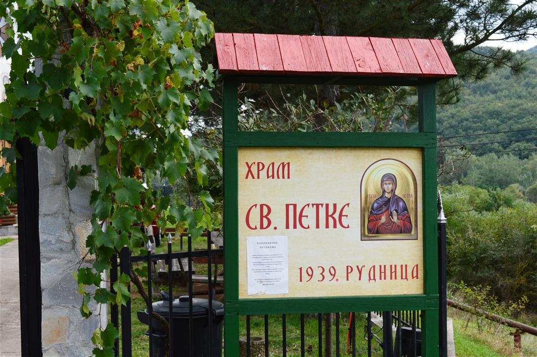 Raska Municipality - Rudnica